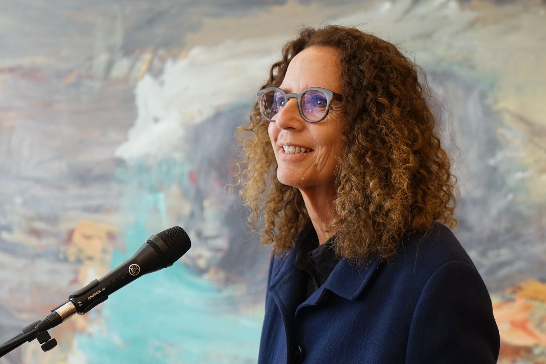 Maja Lisa Engelhardt - Danish painter and artist - at ROMU, Roskilde Museum, Roskilde, Denmark - May 2018